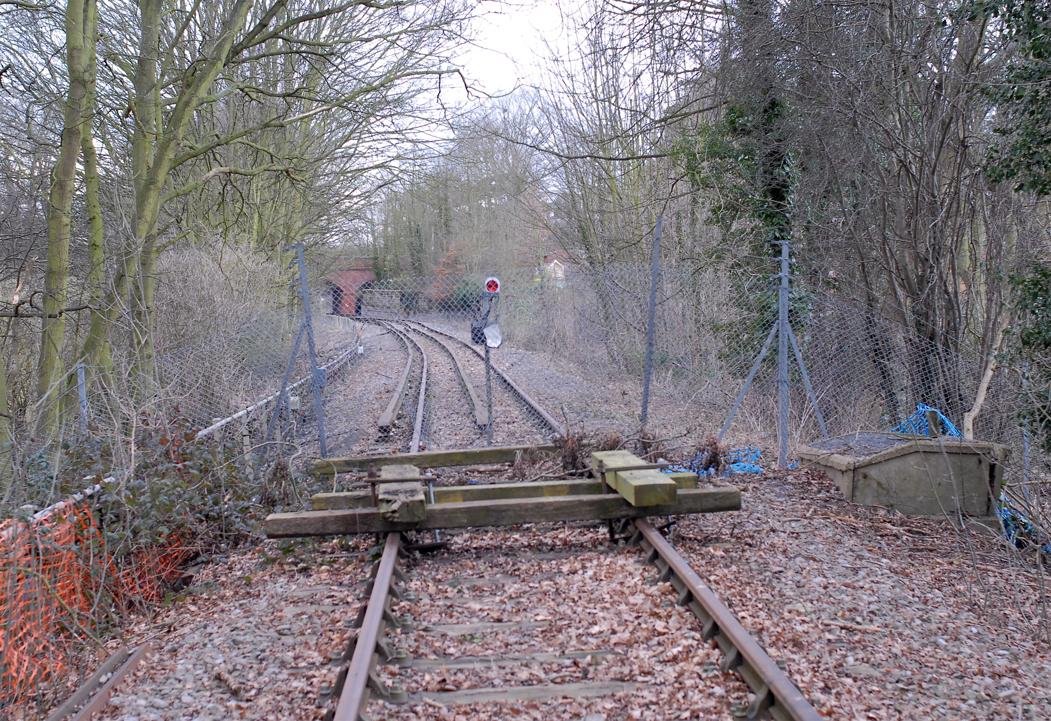 A couple of hundred metres from Epping station. Across the fence - the London Underground. Note the electrification beginning again.